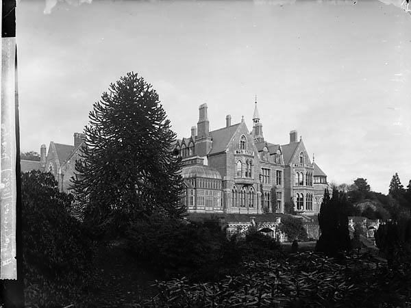 1 negative : glass, dry plate, b&w ; 16.5 x 21.5 cm.